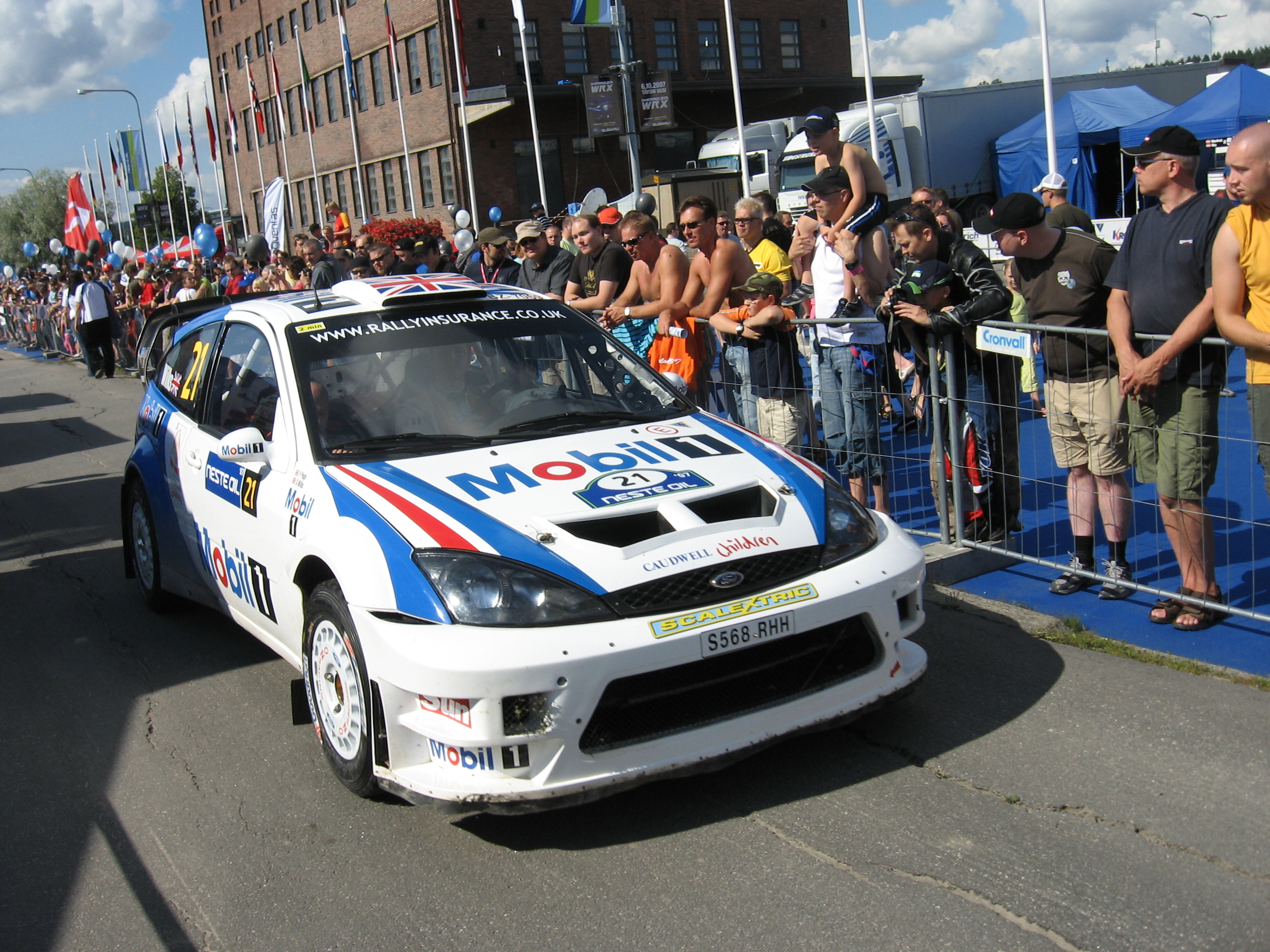 Action from the service park during service F in the 2007 Rally Finland.